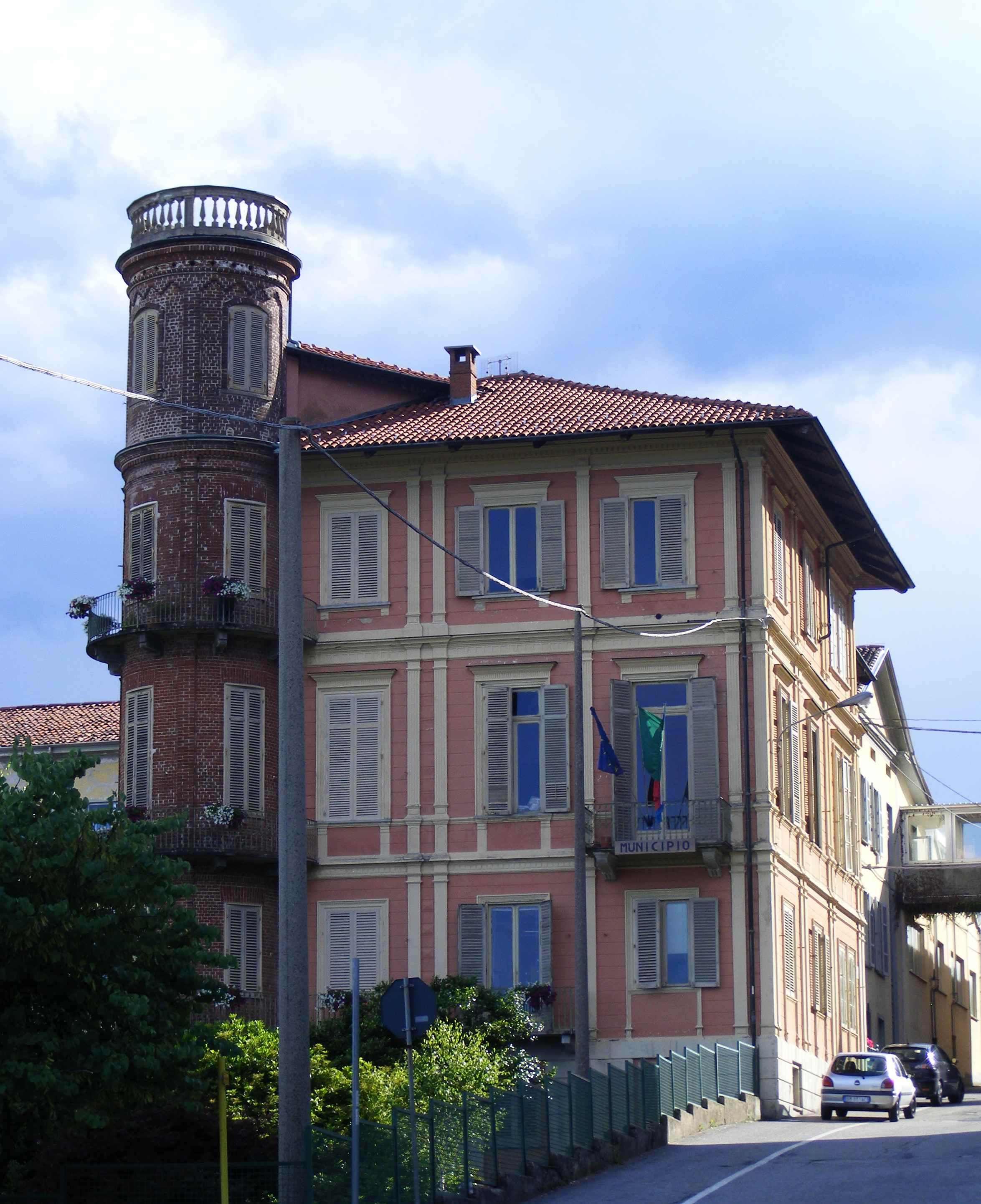 Pettinengo (BI, Italy): town hall